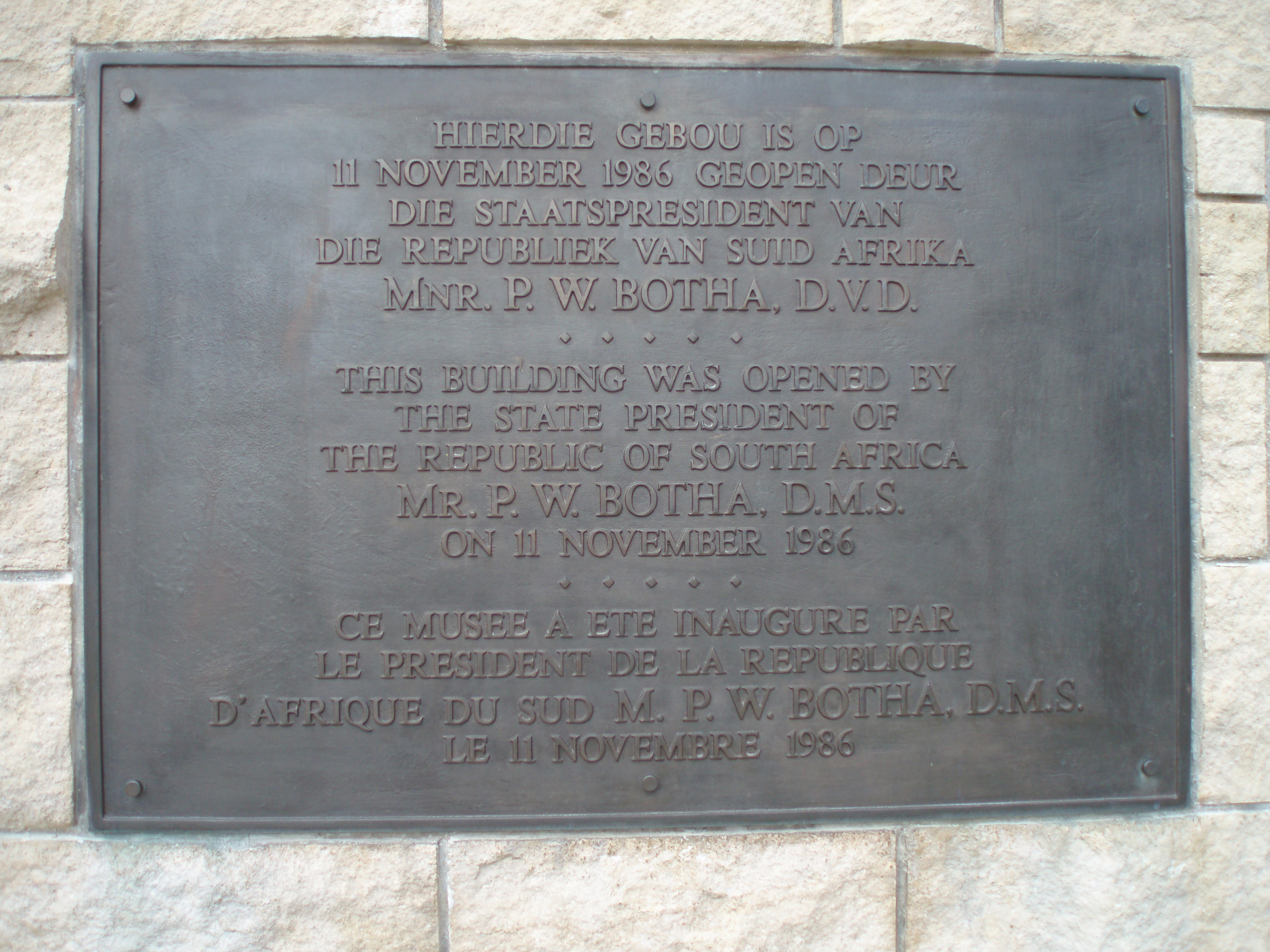 Plaque unveiling for the opening of the South African National Museum in Longueval, France. The Museum was built behind the South African National Memorial and around the Cross of Consecration, and inaugurated by State President Pieter Botha in 1986. It is a replica of Cape Fort and commemorates South Africa's contribution to WWI